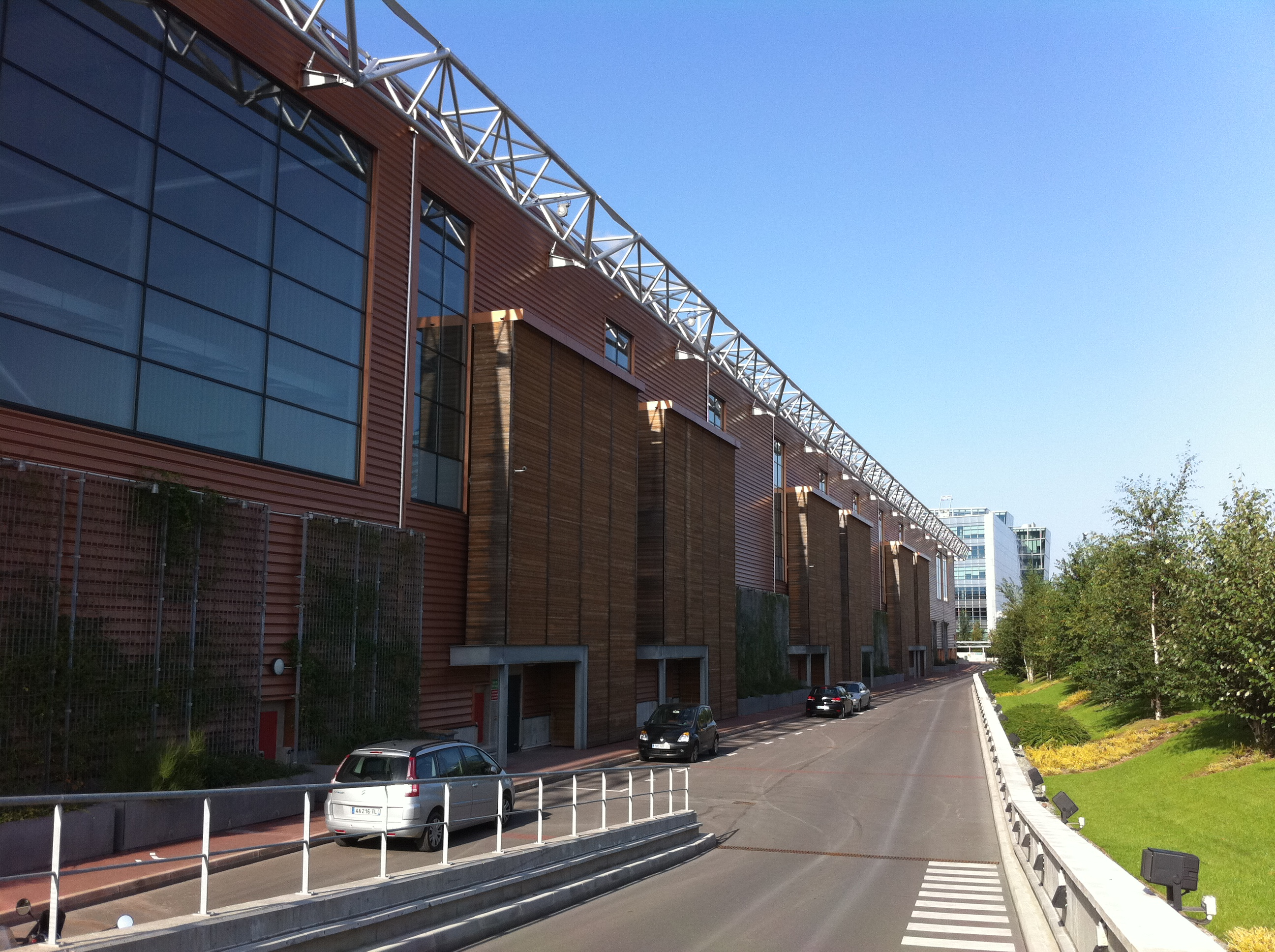 View of Isséane, a modern unit production of renewal energy